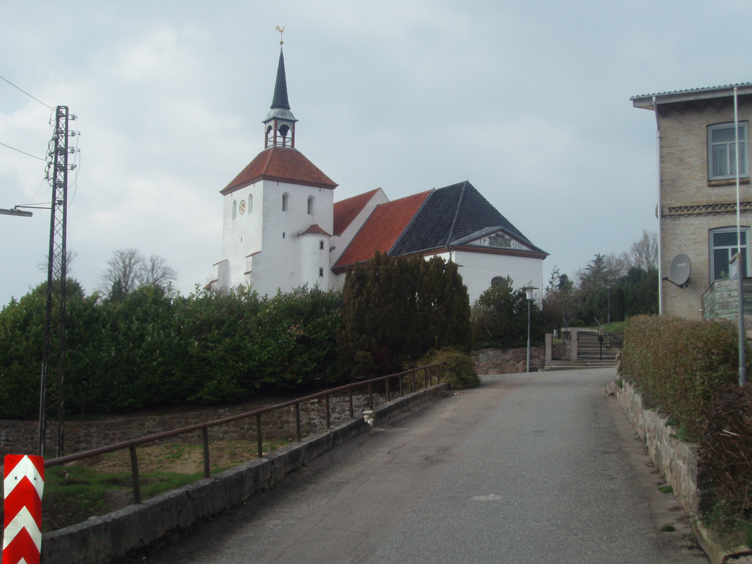 The church in Nordborg, Denmark. March 2009